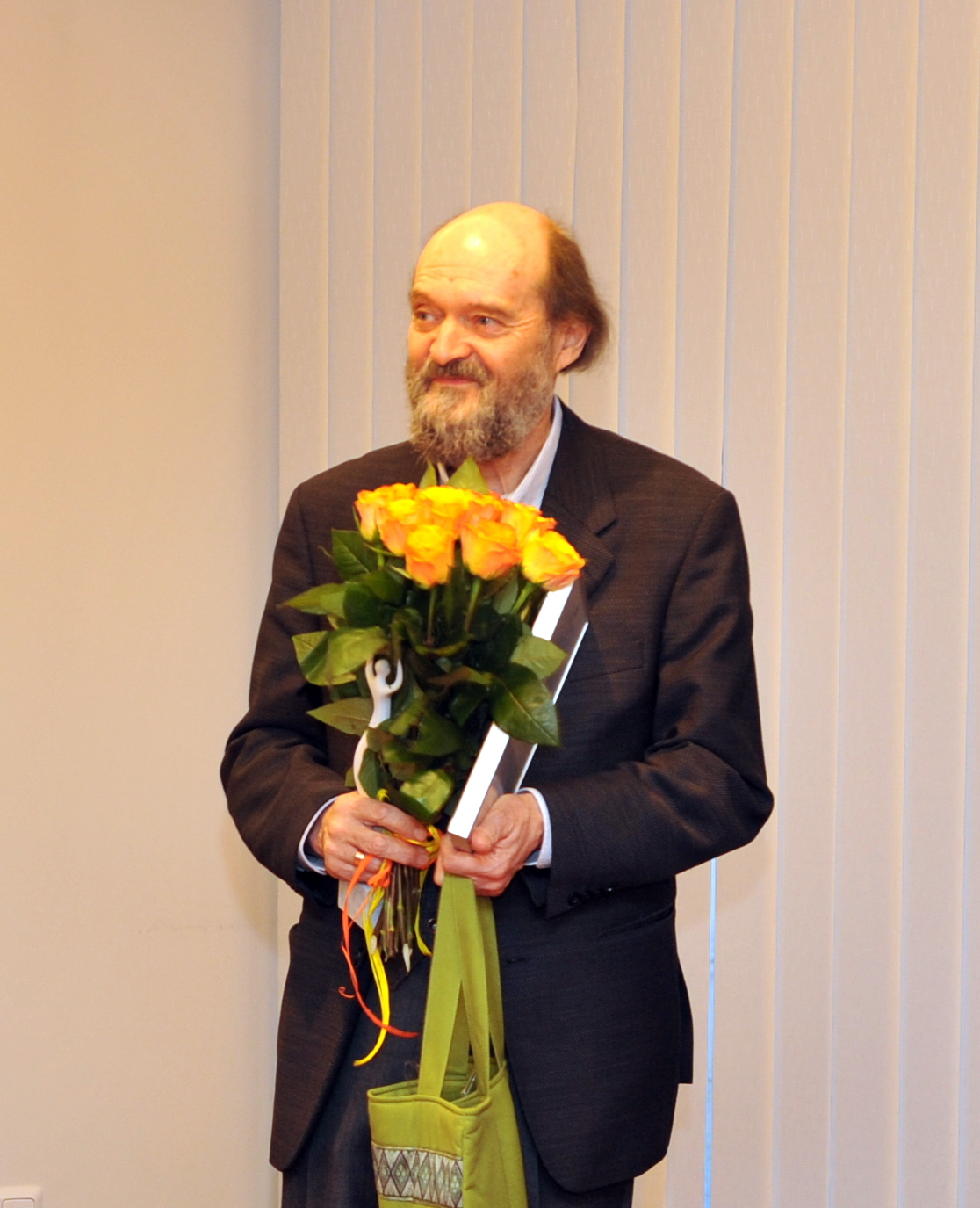 Composer Arvo Pärt